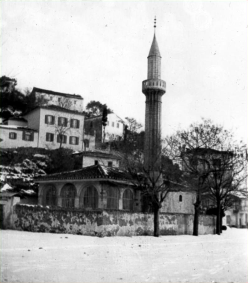 ED027_RAI 400.13325 Montenegro. Ulqin/Ulcinj. The Sailors’ Mosque in the harbour of Ulqin/Ulcinj, now in Montenegro. It was built in the 14th century and demolished by Serbian forces in 1931. The mosque was rebuilt in 2012 on the very same site, now amidst the tourists and traffic (Photo: Edith Durham, January 1907).